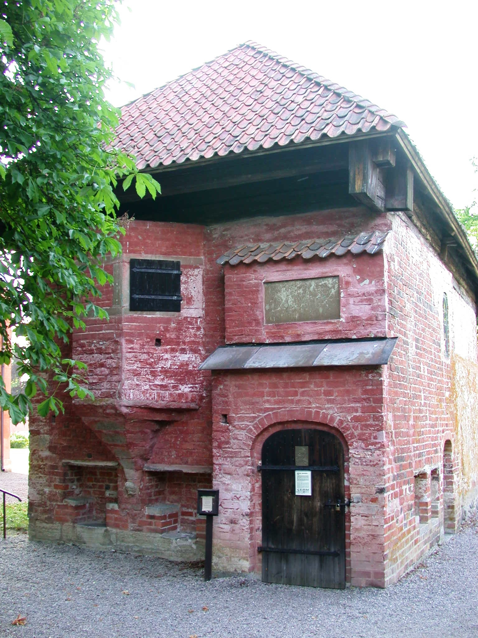 Mårten the Furrier's (Mårten Nilsson) house, Vadstena, Sweden. Photo by Riggwelter, July 20, 2006.